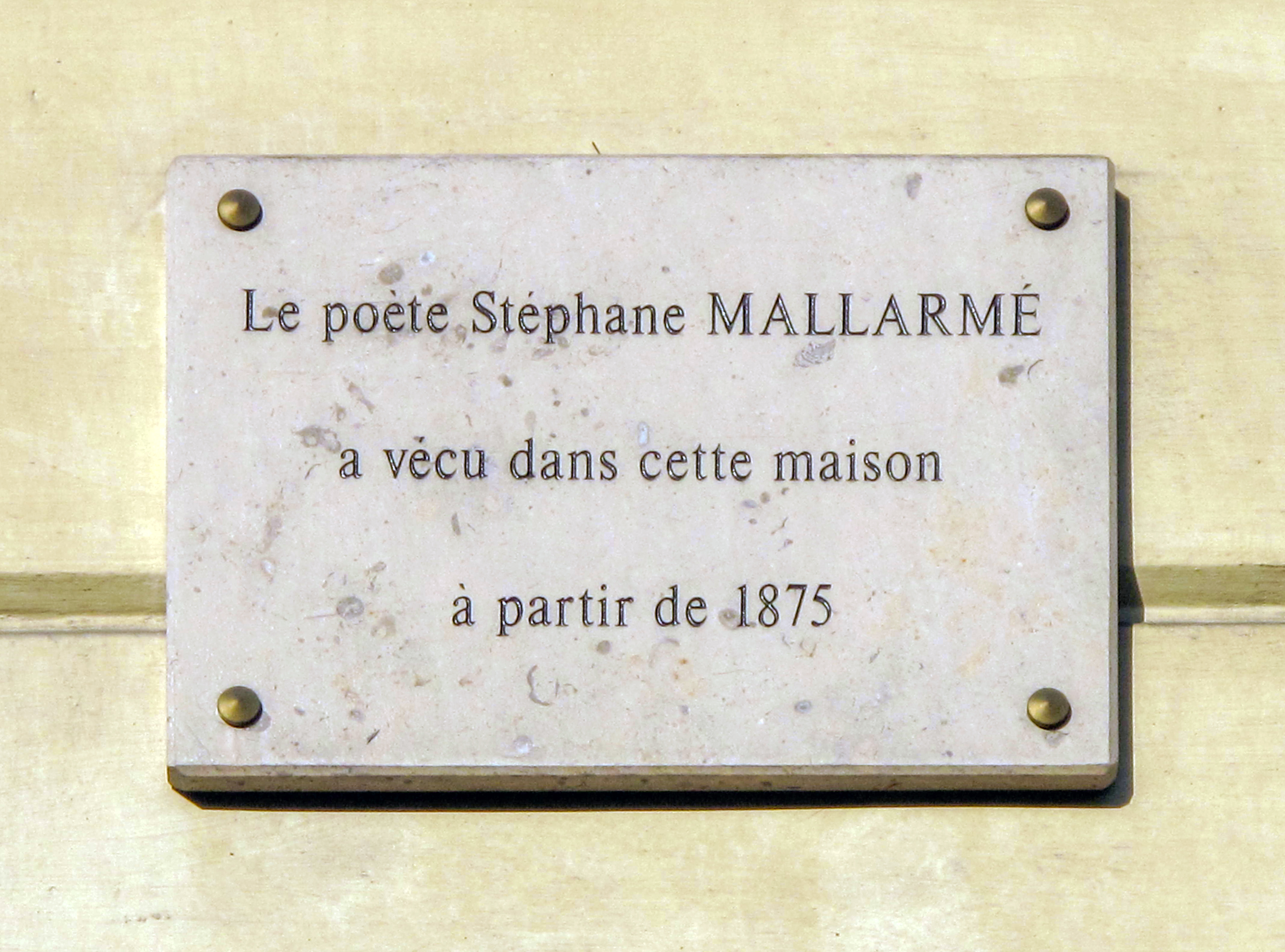 Building where lived Stephane Mallarmé, 89, rue de Rome, Paris